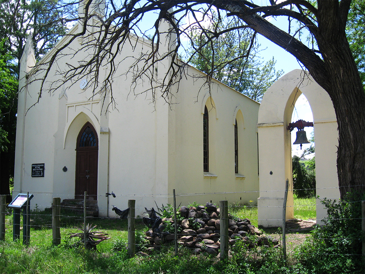 This media shows a South African Protected Site with SAHRA file reference 9/2/090/0005.